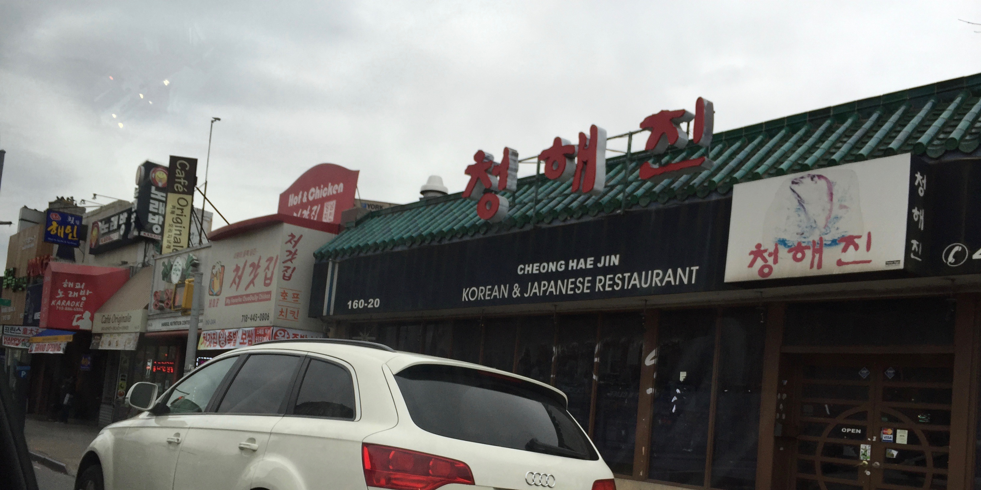 Northern Boulevard in the Koreatown section of Flushing, Queens, New York